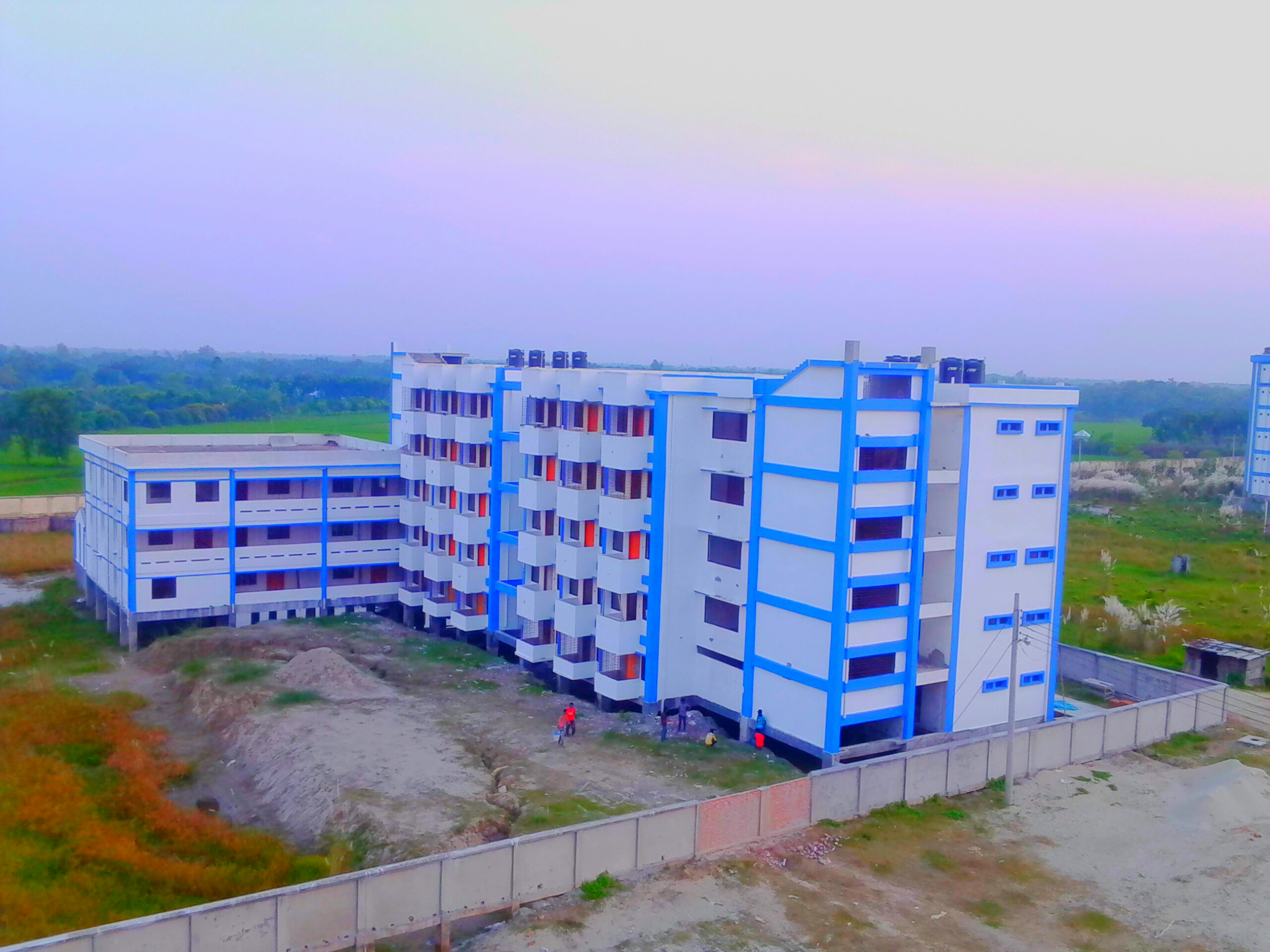 শেখ হাসিনা হল ।